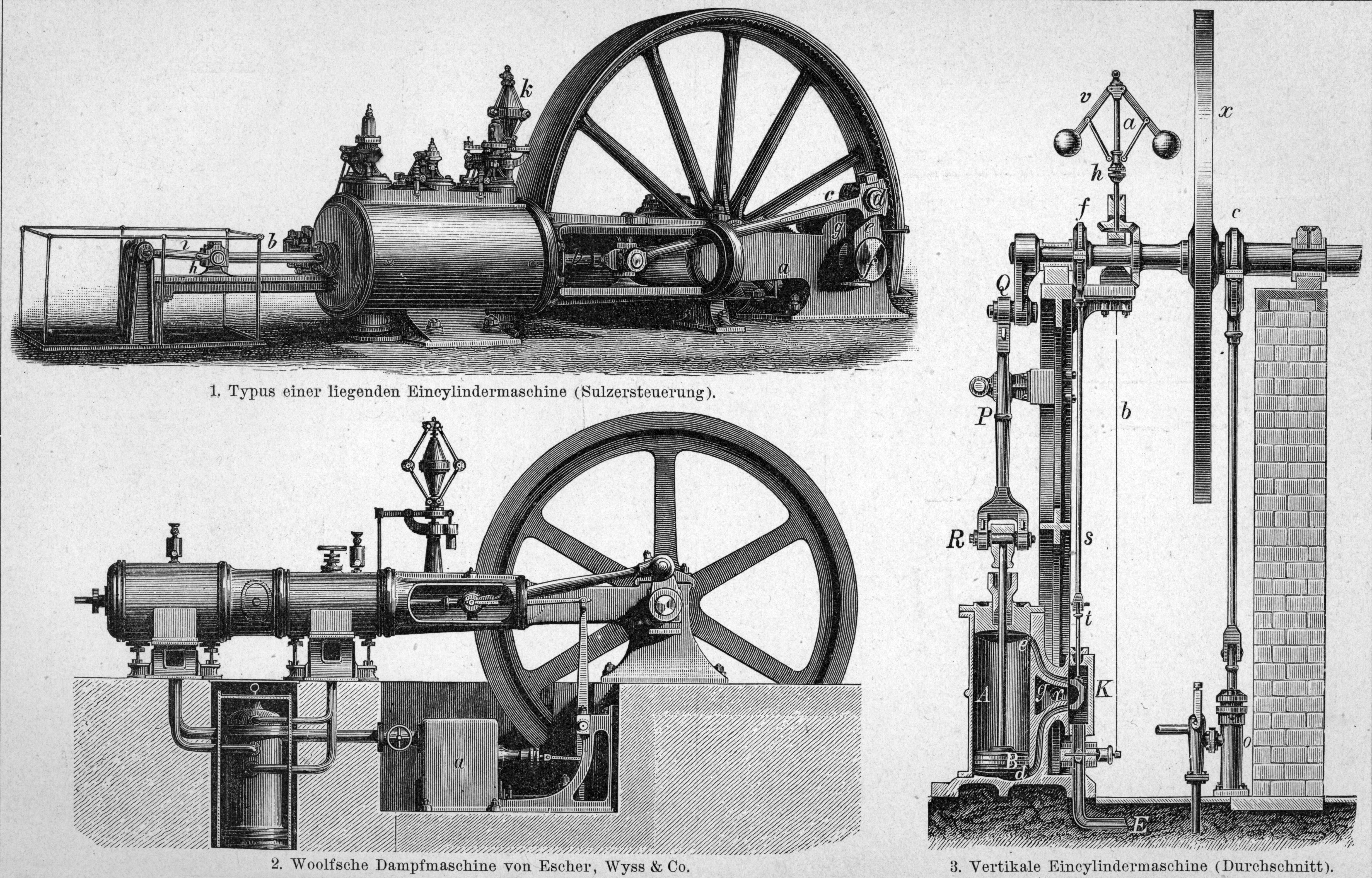 Steam engine technology